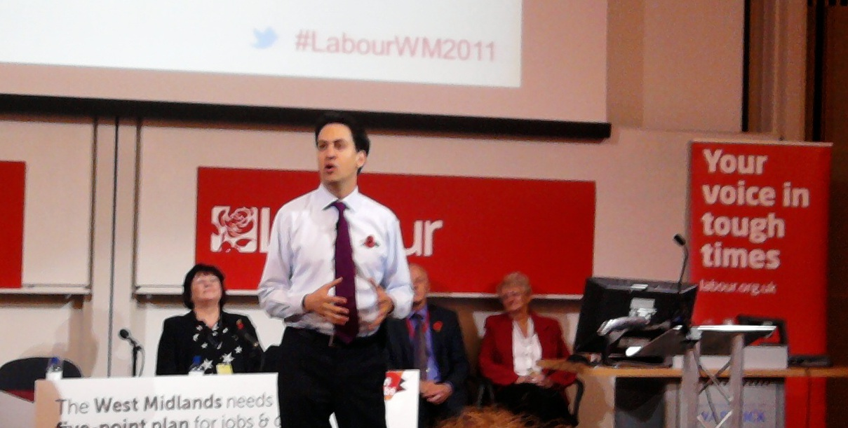 Ed Miliband addressing the West Midlands Regional Conference, 12 November 2011